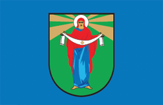 Flag of Mlyniv raion